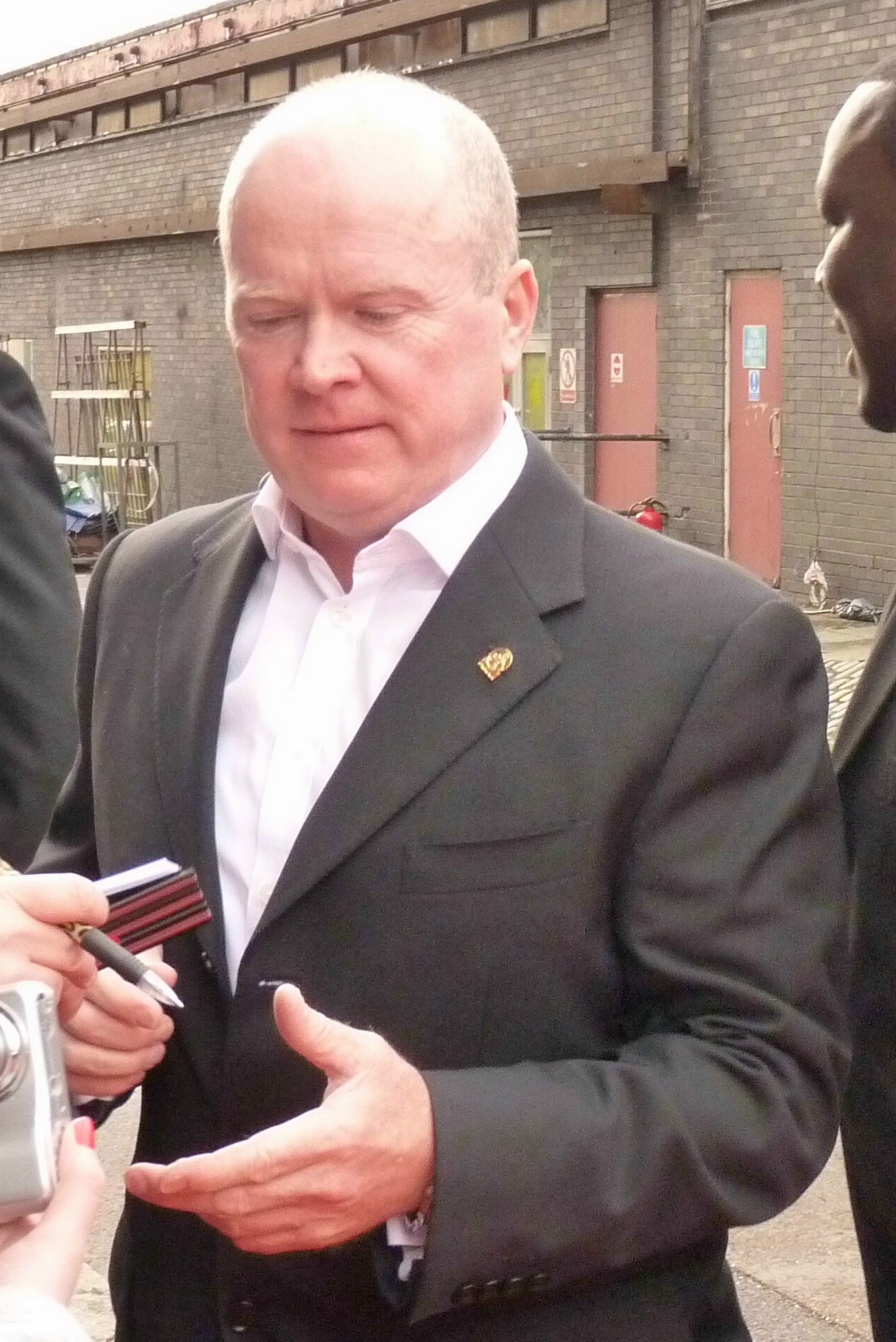 EastEnders actor Steve McFadden at the 2011 British Soap Awards.